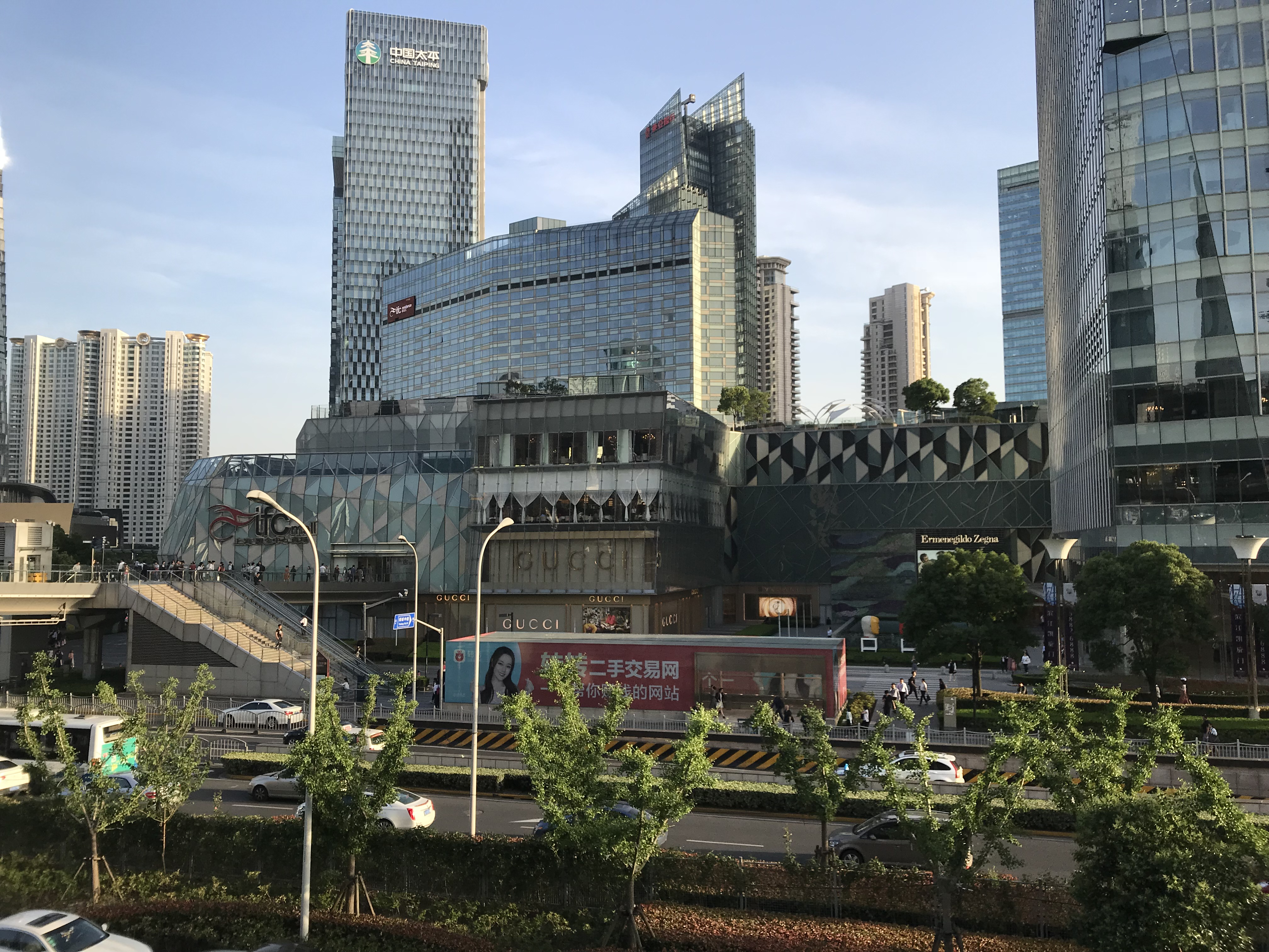 201805 IFC Mall Shanghai